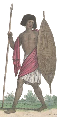 A Shaqiya warrior as seen by Frederic Caillaud during the Egyptian invasion and coloured by Goedsche and others in 1832. Note: Parts of the spear have been photoshopped into the image by me, as they were missing in the original. Same for the vegetaion in the right bottom corner.